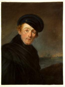 Portret van de zeeschilder Albertus van Beest